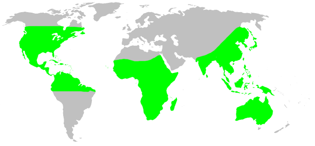 Ctenidae habitat distribution, drawn after Platnick: World Spider Catalog 7.0. This is not a precise rendering of the distribution! If you have better information, please replace this map, or send me the info, and i will redraw it.